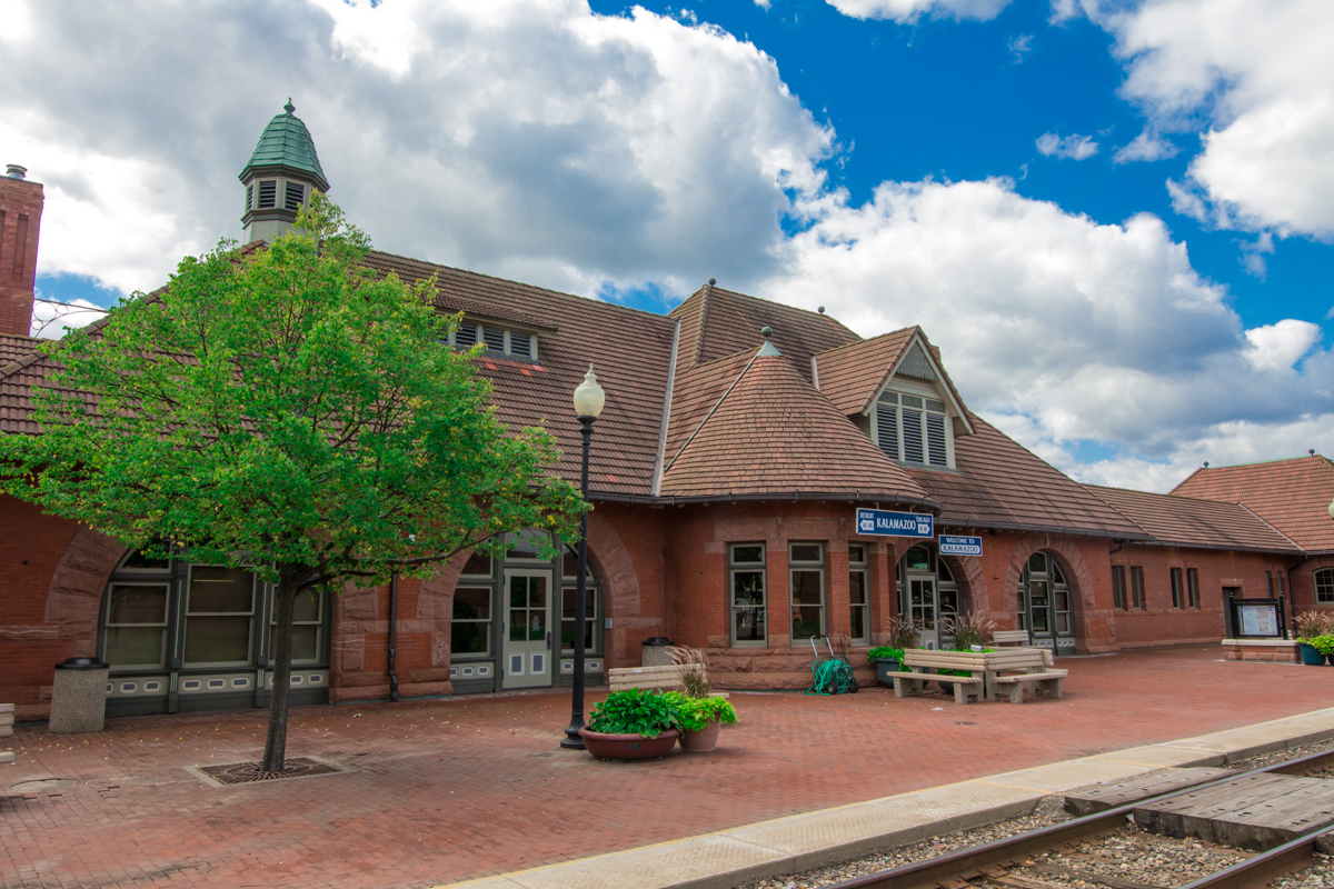 100px